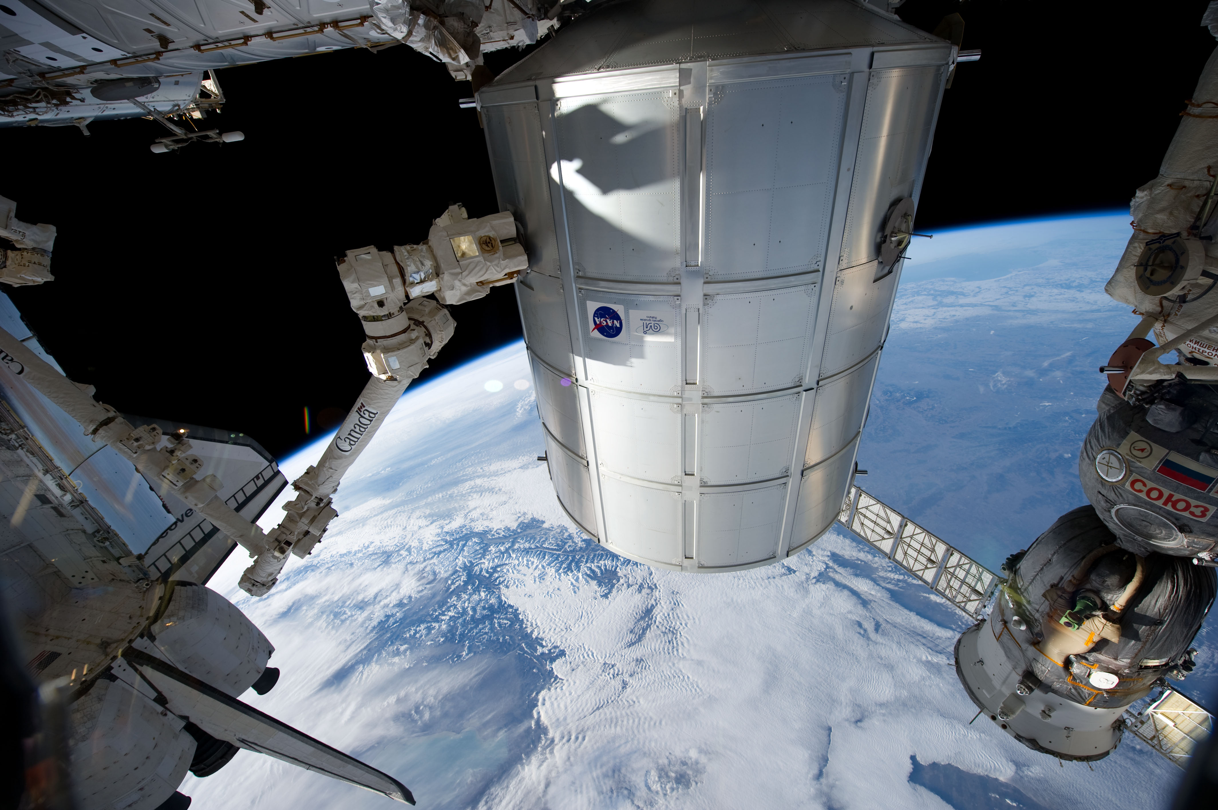 In the grasp of the International Space Station's Canadarm2, the Italian-built Permanent Multipurpose Module (PMM) is transferred from space shuttle Discovery's payload bay to be permanently attached to the Earth-facing port of the station's Unity node. Earth's horizon and the blackness of space provide the backdrop for the scene.